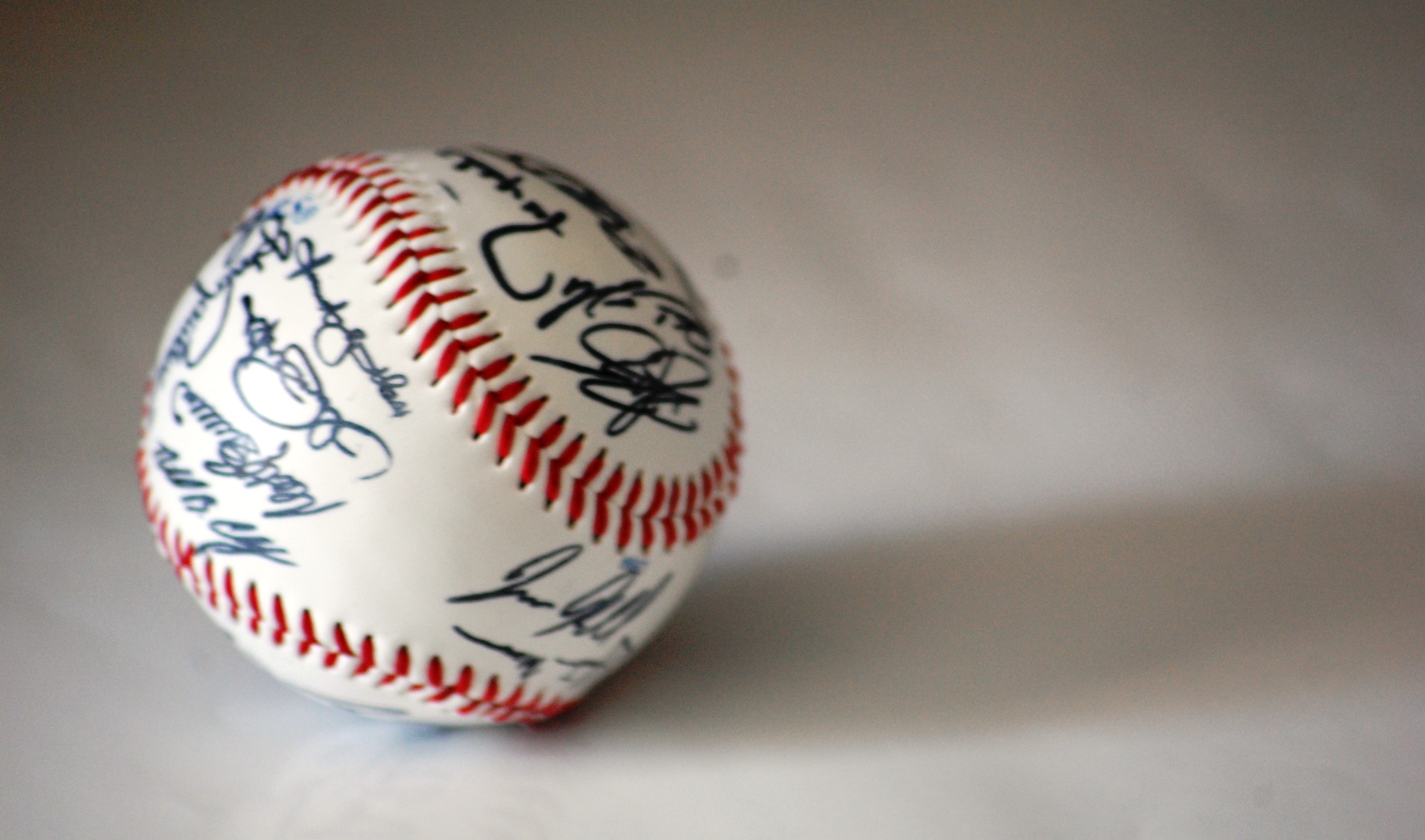 Baseball sign by the team of the Minnesota Twins.